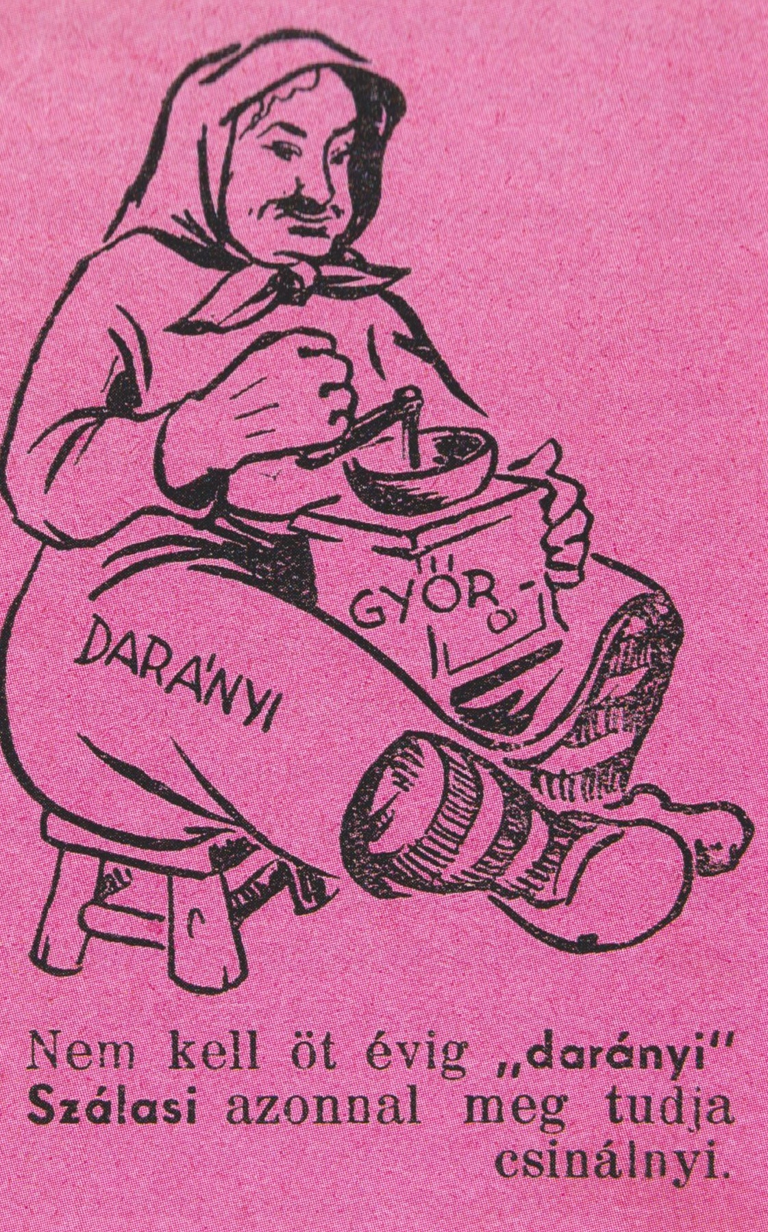 A pamphlet of the far-right Arrow Cross Party from 1938, published after the announcement of the Programme of Győr by Prime Minister Kálmán Darányi, which initiated a 5-year term military improvement and investment. Play on "Darányi" and "darálni" [mince] words. The message of the cartoon is that Ferenc Szálasi, leader of the Arrow Cross Party does not need five years to military reforms.